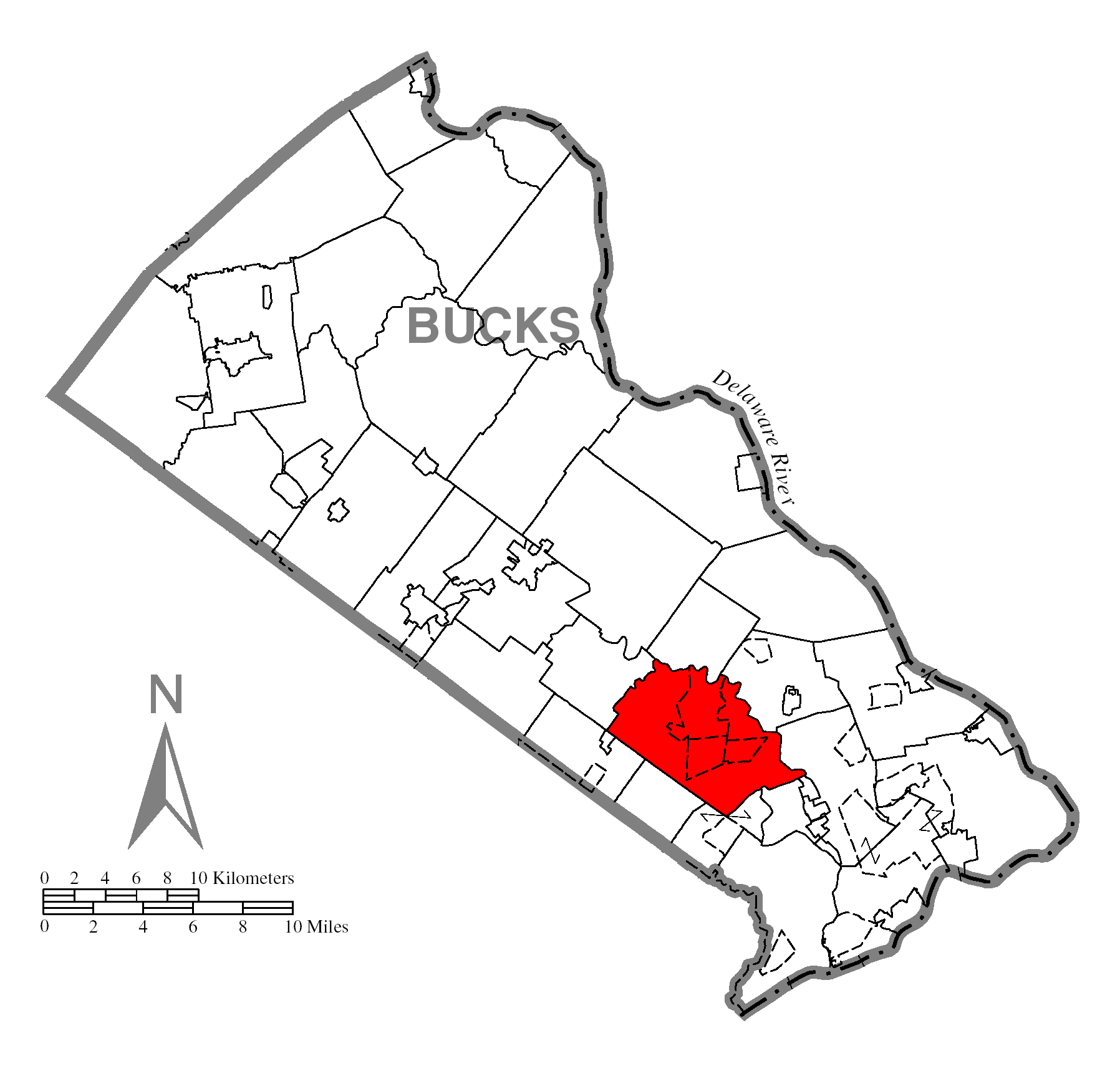 A map of Bucks County showing Northampton Township, Pennsylvania (alternate) highlighted on the map.